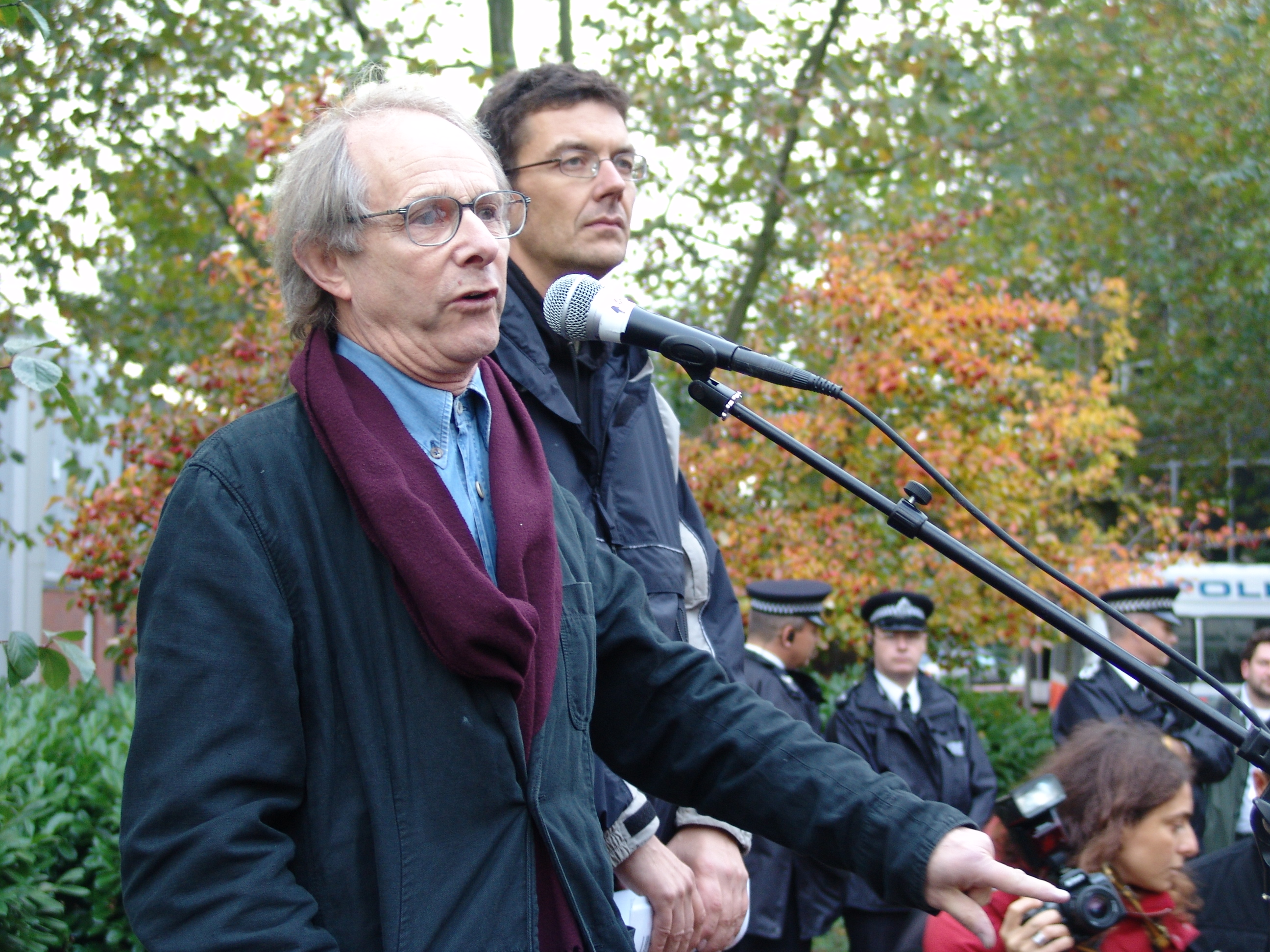 Ken Loach speaks at a rally for low-paid cleaners in London's docklands